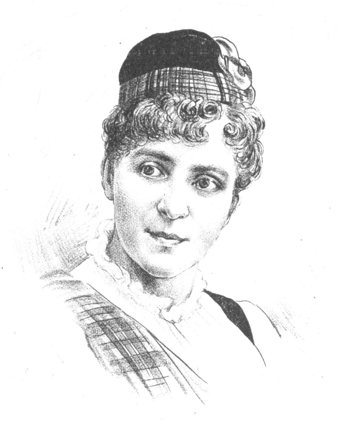 Portrait of Maria Brüning (1869-??), German actress.